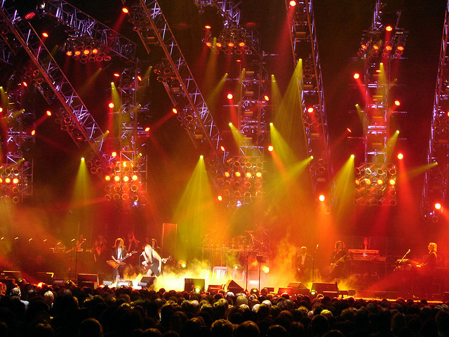 A shot of the Trans-Siberian Orchestra performing at the Hershey Giant Center in 2004